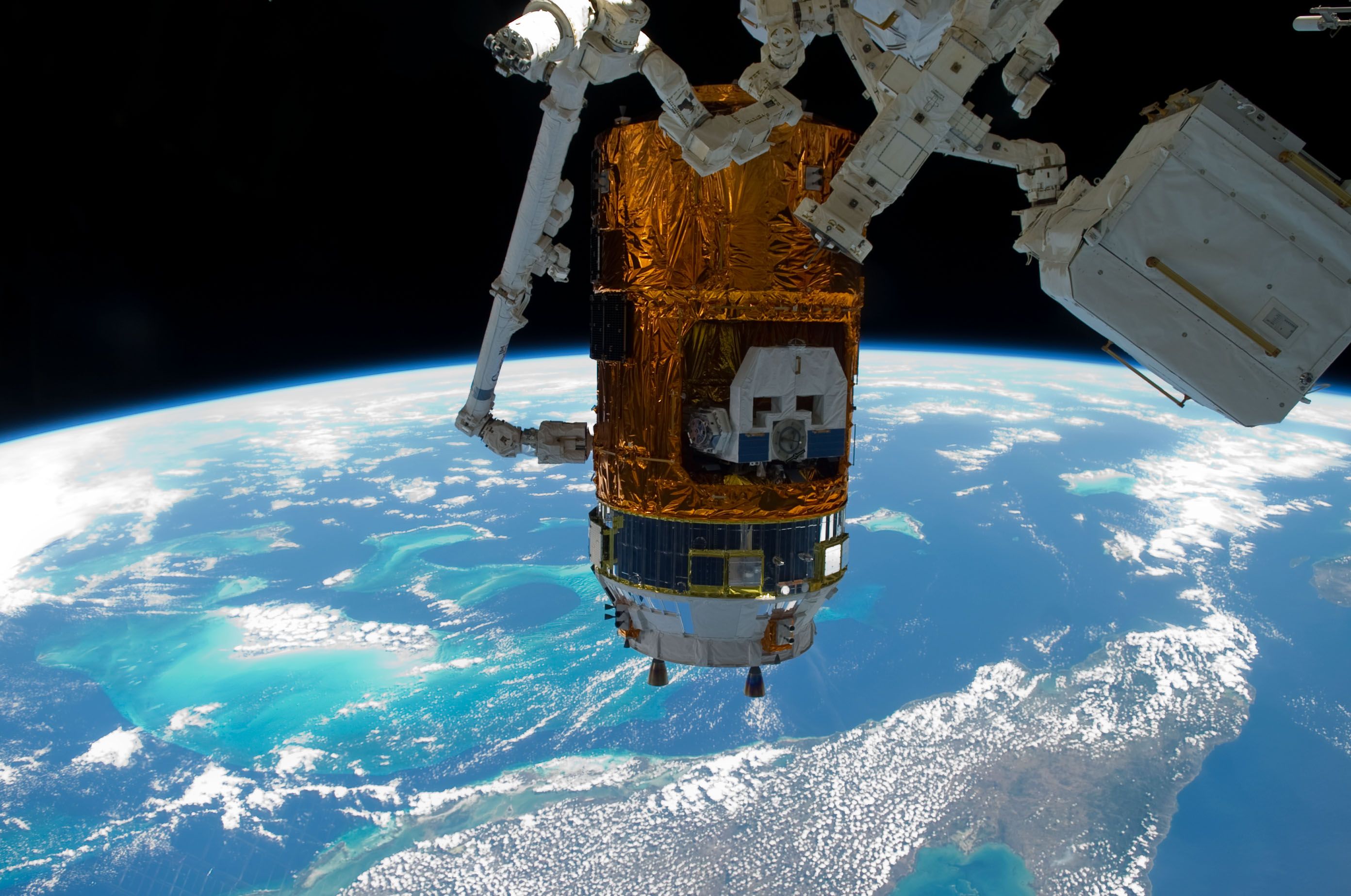 In the grasp of the International Space Station's Canadarm2, the Kounotori2 H-II Transfer Vehicle (HTV-2) is moved from the space-facing side of the Harmony node back to the Earth-facing port of Harmony. HTV-2 had been moved to the top of Harmony prior to space shuttle Discovery's arrival for the STS-133 mission. The HTV-2, loaded with trash and materials no longer needed by the station crew, will be unberthed for the final time on March 28 and deorbited the following day. Earth's horizon and the blackness of space provide the backdrop for the scene.